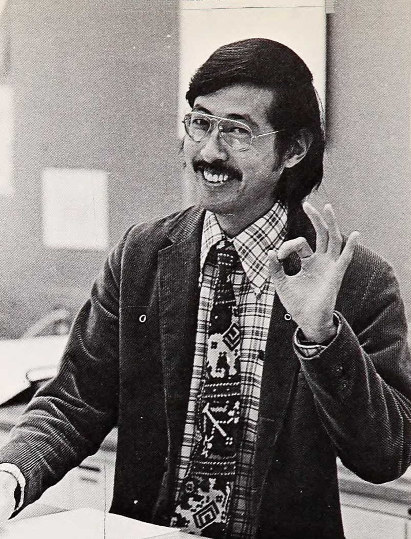 Patrick Nagatani teaching a class at Alexander Hamilton High School in Los Angeles.